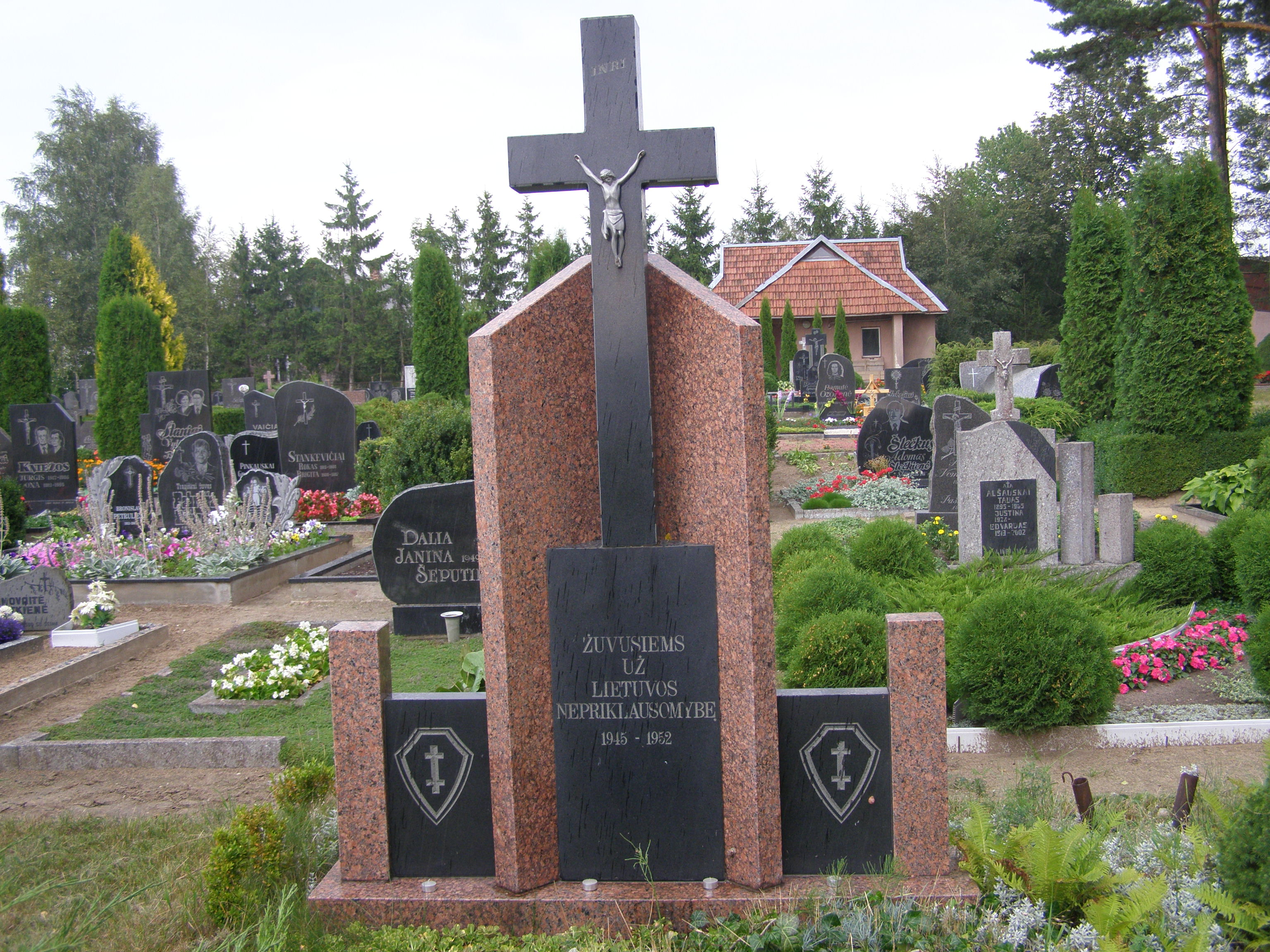 Narvydžiai cemetery, Skuodas district, LithuaniaLietuvių: Narvydžių kapinių paminklas partizanams, Skuodo rajonas, Lietuva